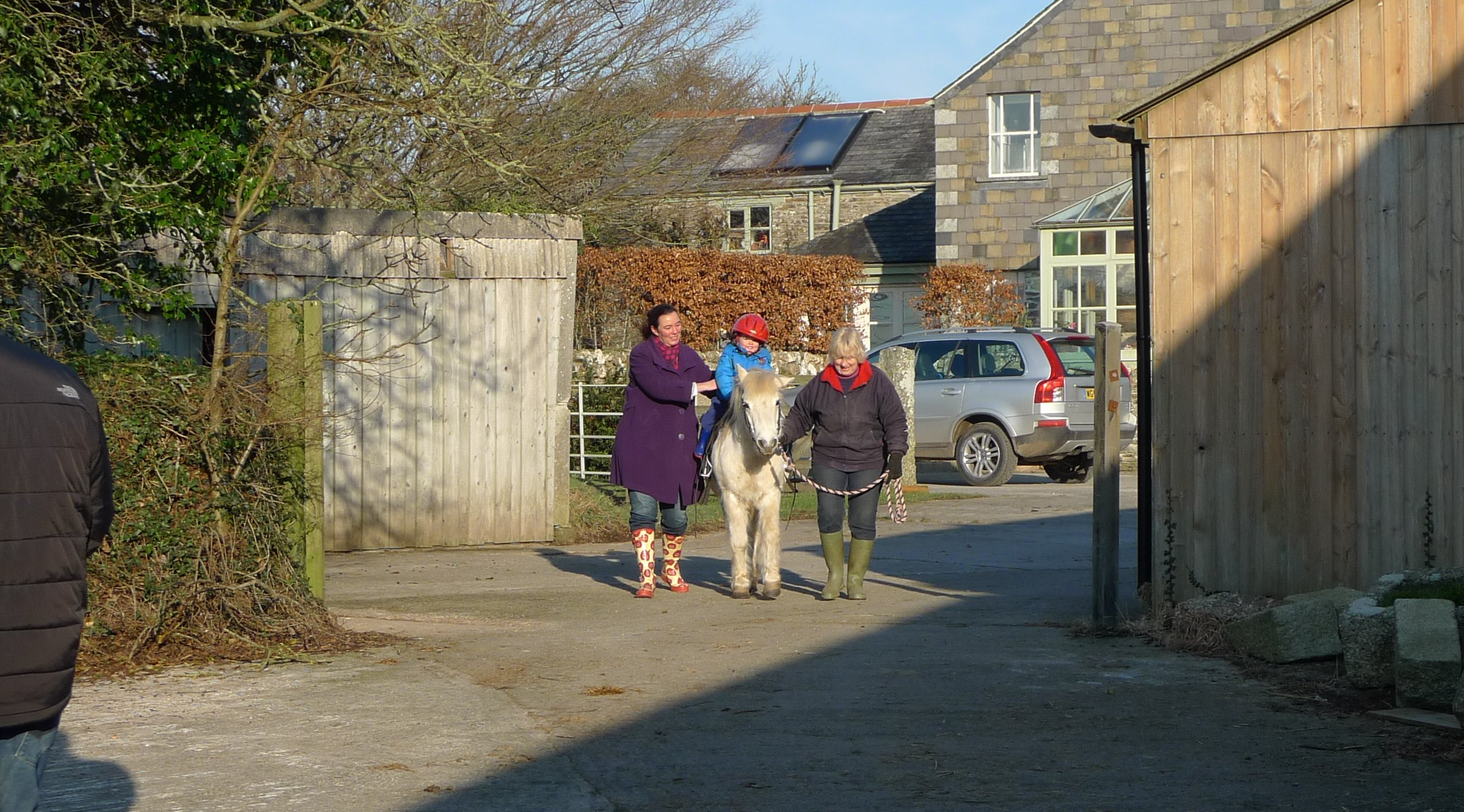 A child with safety helmet and two handlers riding a pony